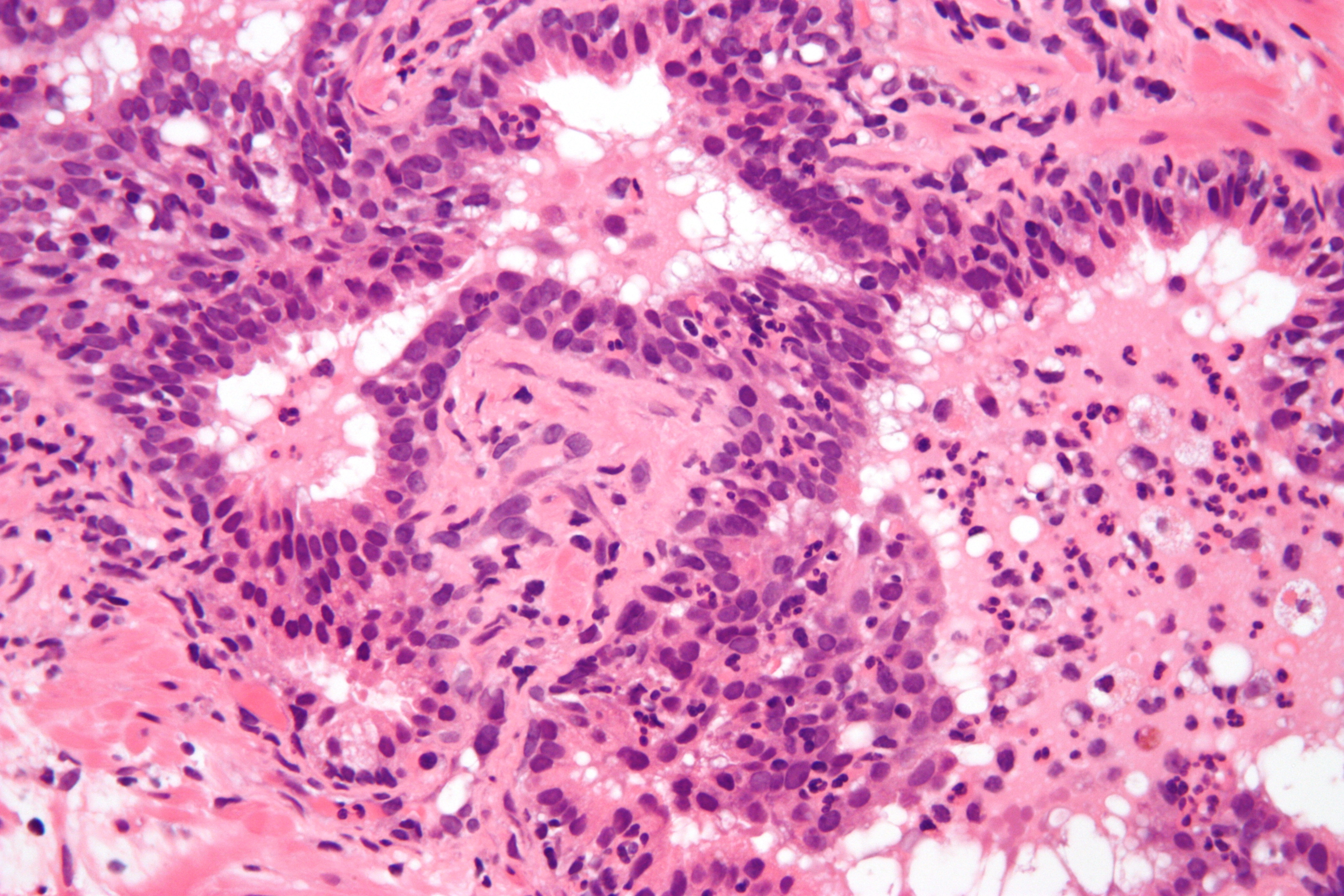 Micrograph of prostate gland with an acute inflammatory infiltrate (neutrophils). H&E stain. Prostatic inflammation is the pathologic correlate of prostatitis. Prostatitis is a benign cause of PSA elevation, i.e. a high PSA value prompts a biopsy, as cancer is a possibility, yet the cause of the elevated PSA is prostatitis. Related images Granulomatous - low mag. Granulomatous - high mag. Acute inflammation. Chronic inflammation.